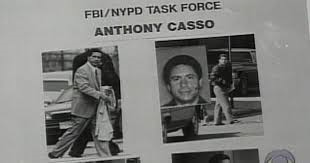 FBI/NYPD Task Force poster of Anthony Casso of Lucchese crime family